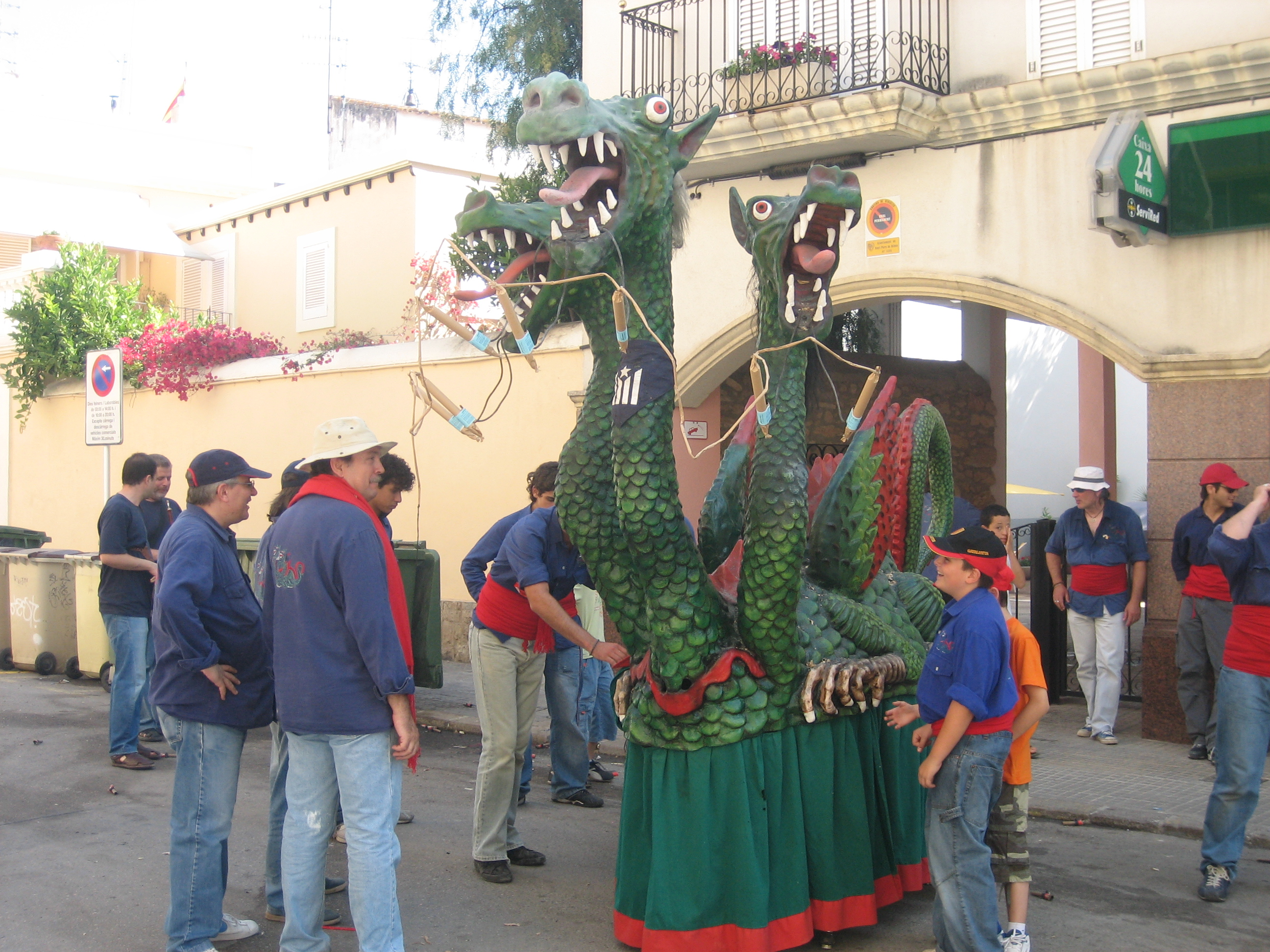 Dragon with three head